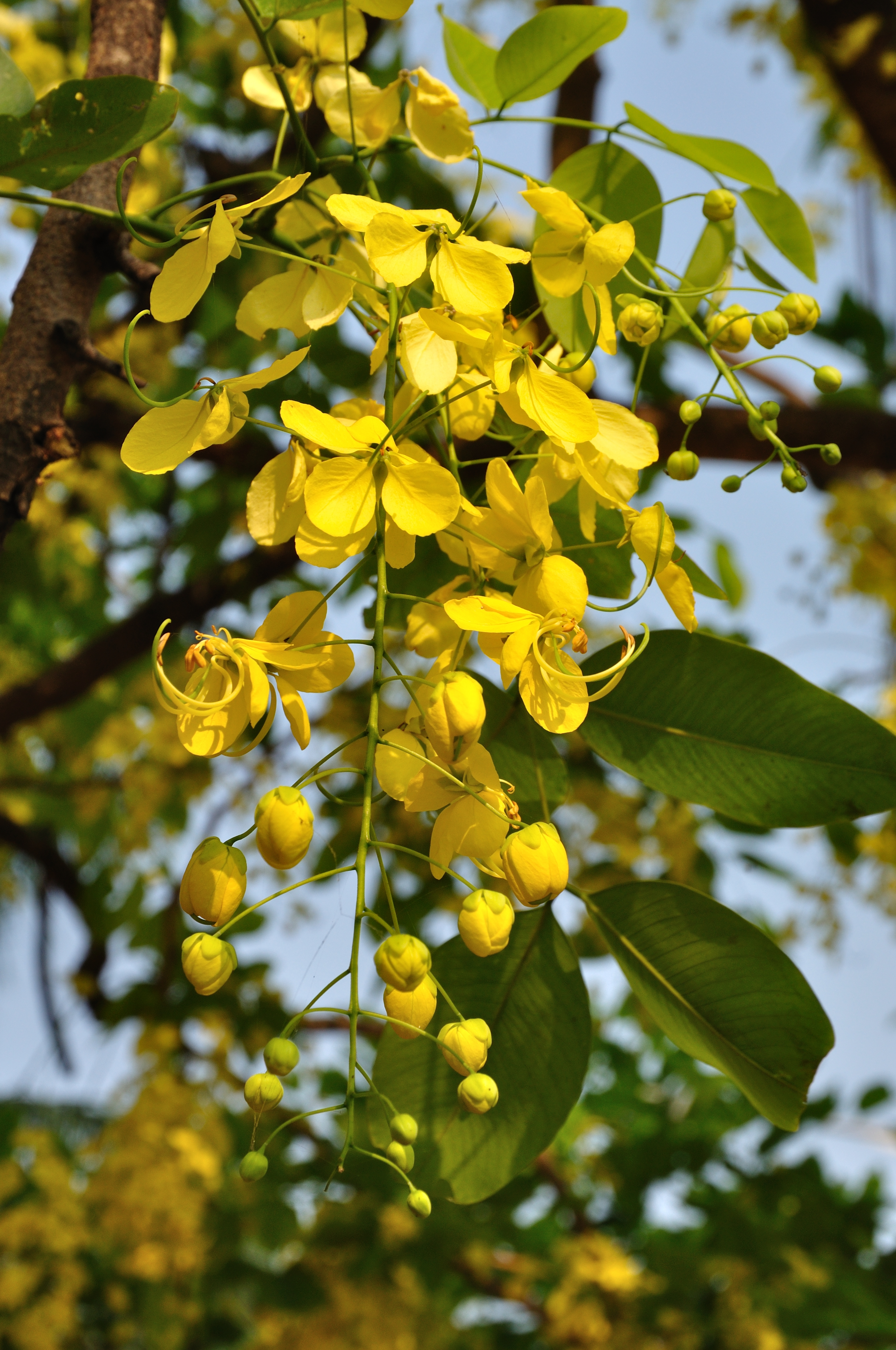 Common name: Amaltas, Golden shower tree, Indian Laburnum • Hindi: अमलतास Amaltas • Manipuri: চহুঈ Chahui • Tamil: கொன்றை Konrai • Malayalam: Vishu konnai • Marathi: बहावा Bahava • Mizo: Ngaingaw • Bengali: সোনালী Sonali, Bandarlati, Amultas • Urdu: املتاس Amaltas Botanical name: Cassia fistula. Family: Caesalpiniaceae (Gulmohar family) This native of India, commonly known as Amaltaas, is one of the most beautiful of all tropical trees when it sheds its leaves and bursts into a mass of long, grape-bunches like yellow gold flowers. A tropical ornamental tree with a trunck consisting of hard reddish wood, growing up to 40 feet tall. The wood is hard and heavy; it is used for cabinet, inlay work, etc. It has showy racemes, up to 2" long, with bright, yellow, fragrant flowers. These flowers are attractive to bees and butterflies. The fruits are dark-brown cylindrical pods, also 2' long, which also hold the flattish, brown seeds (up to 100 in one pod) These seeds are in cells, each containing a single seed. Medicinal uses: The sweet blackish pulp of the seedpod is used as a mild laxative. Photographed at the Sector-V, Salt Lake (Bidhan Nagar), Kolkata.